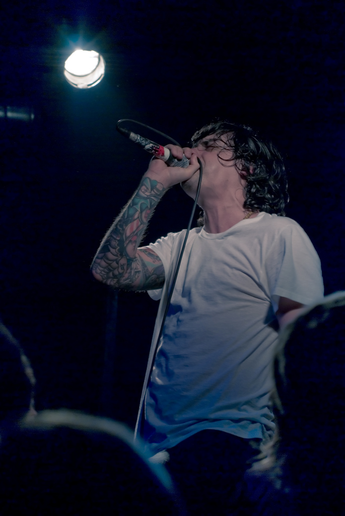 Travis Reilly of This is Hell performing live in Berlin on March 15, 2009.